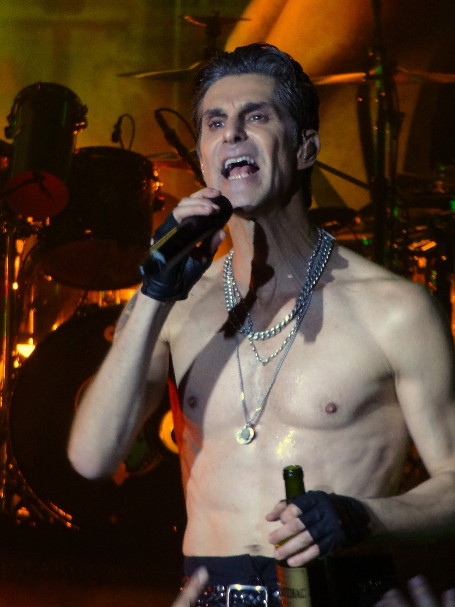 Perry Farrell performing with Jane's Addiction at BFD 2012